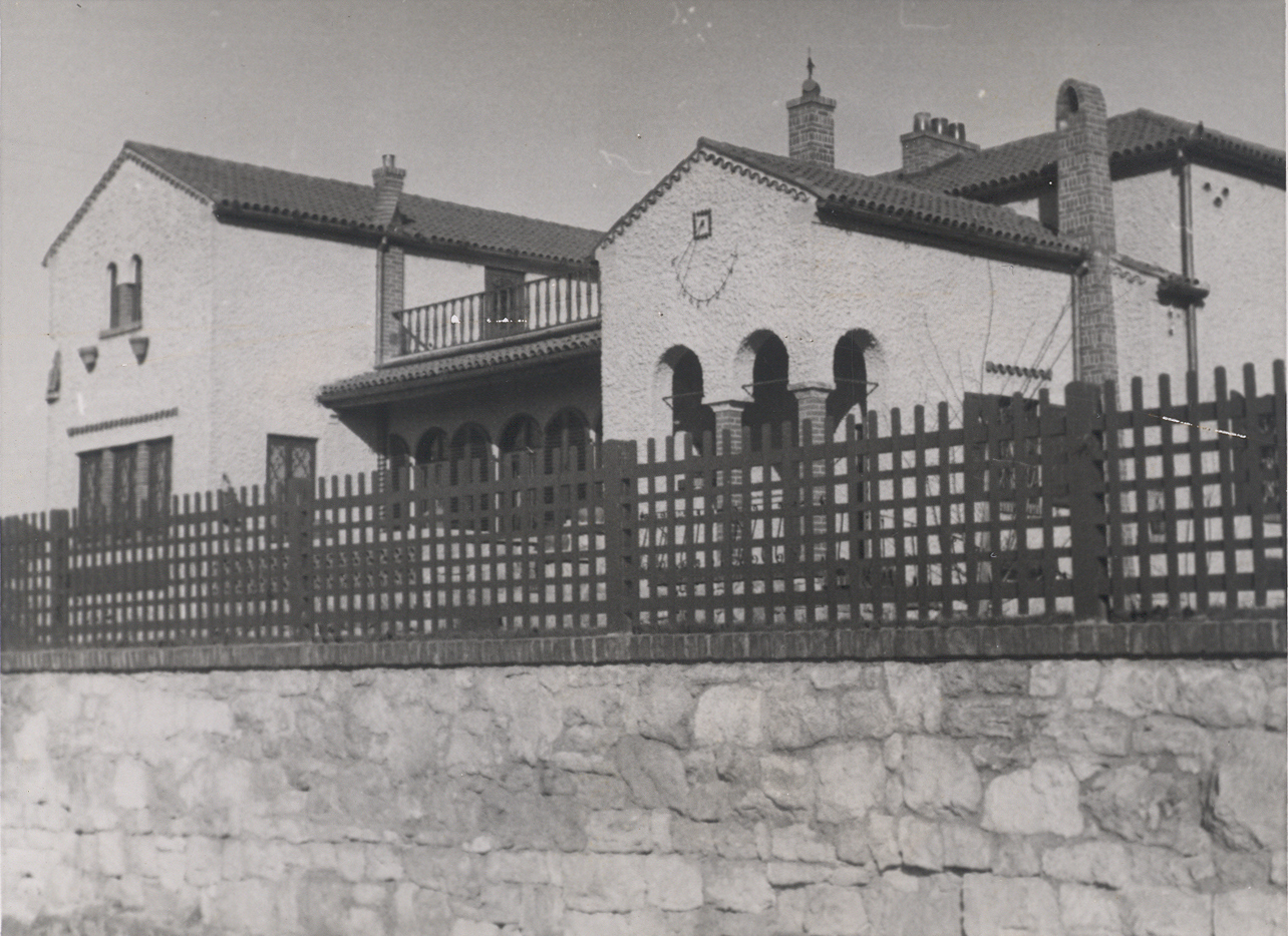 Villa in Lackovićeva street in Belgrade. Designed by the Aleksandar Deroko.